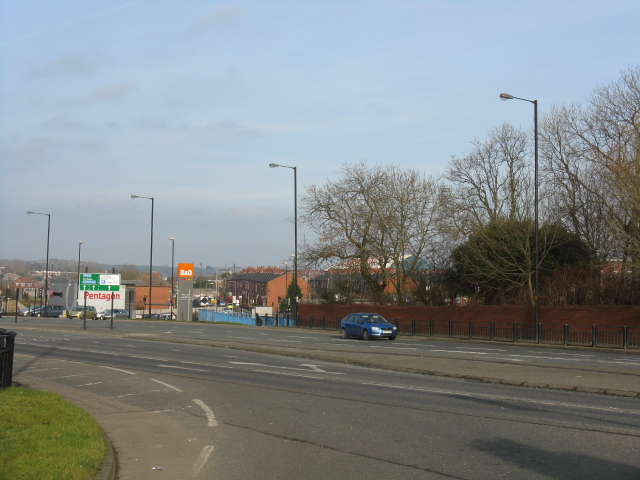 Chadderton - Toward Boundary Park Road